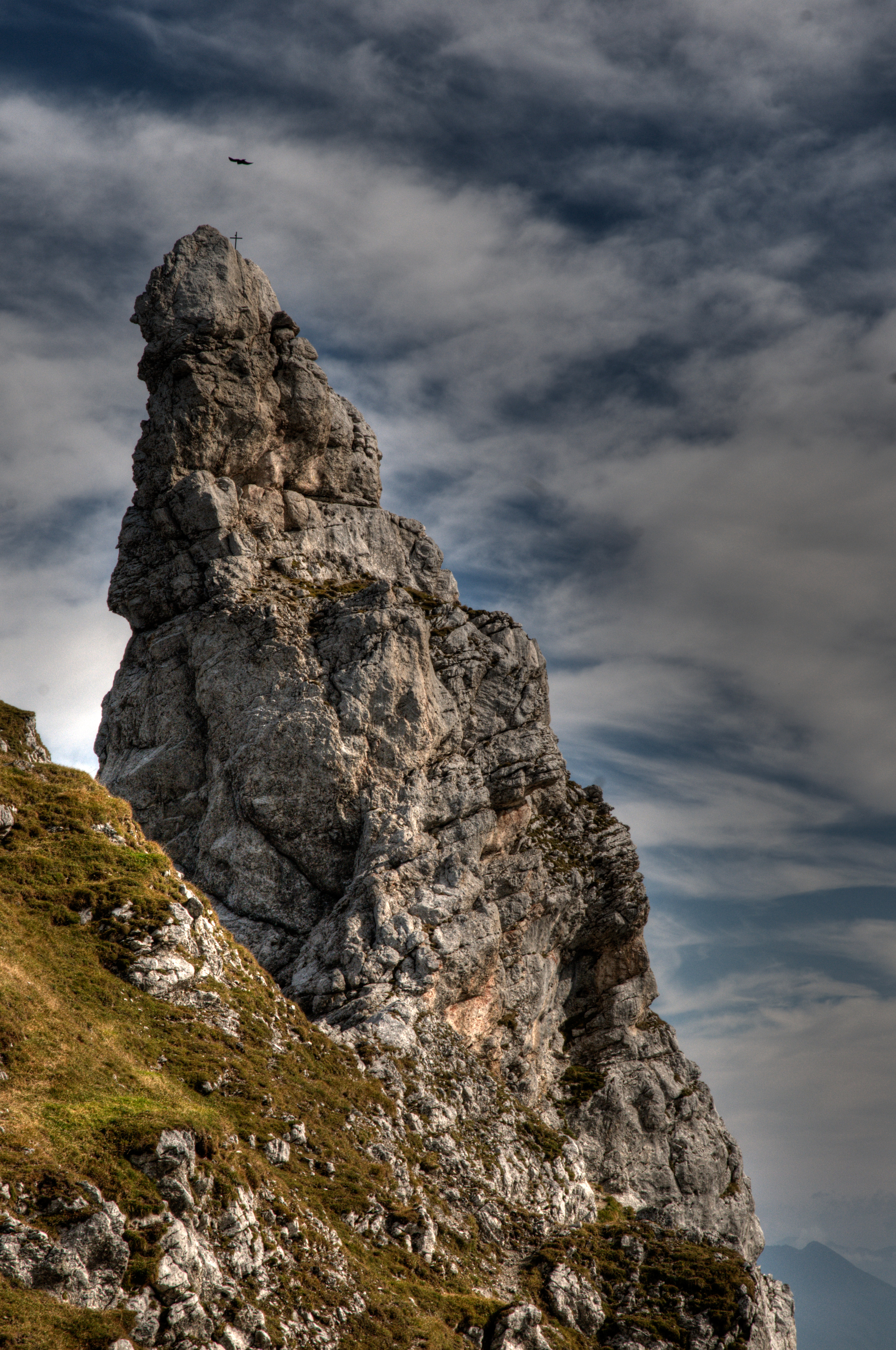 Frau Hitt, Nordkette, Westface